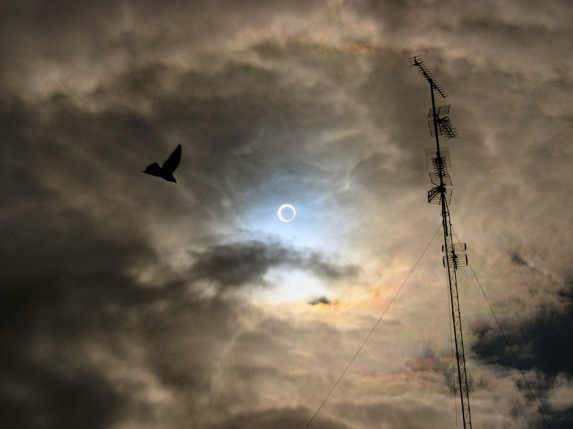 Photo taken by Mario Ramírez Ferrero during the October 3 2005 annular eclipse in Valladolid (Spain).